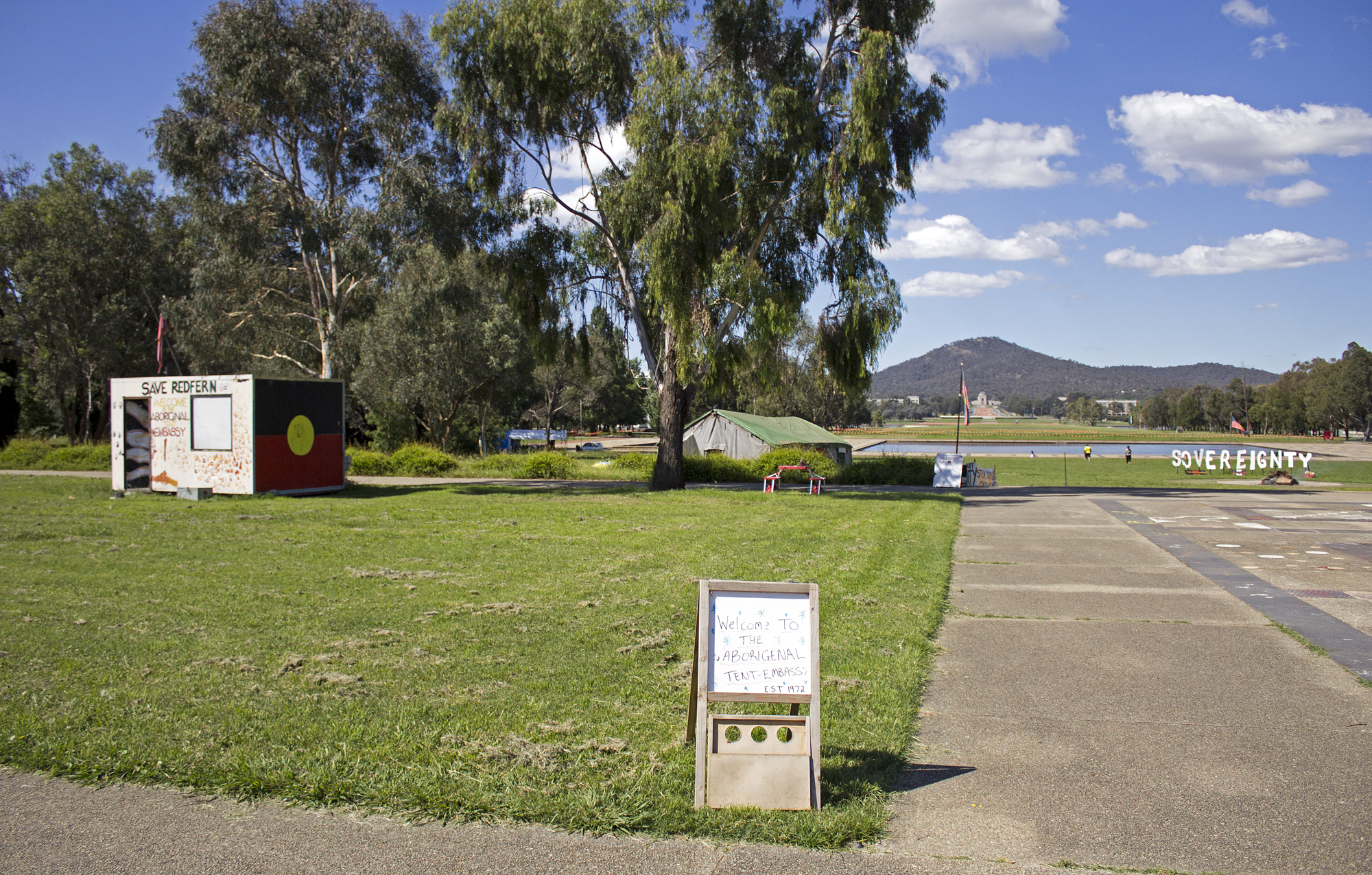 Aboriginal Tent Embassy in Parkes, Australian Capital Territory.